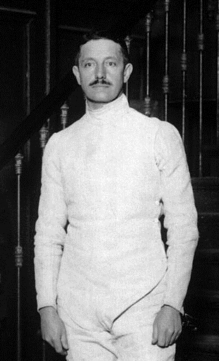 French Fencer Felix Ayat on January 26Th, 1926.